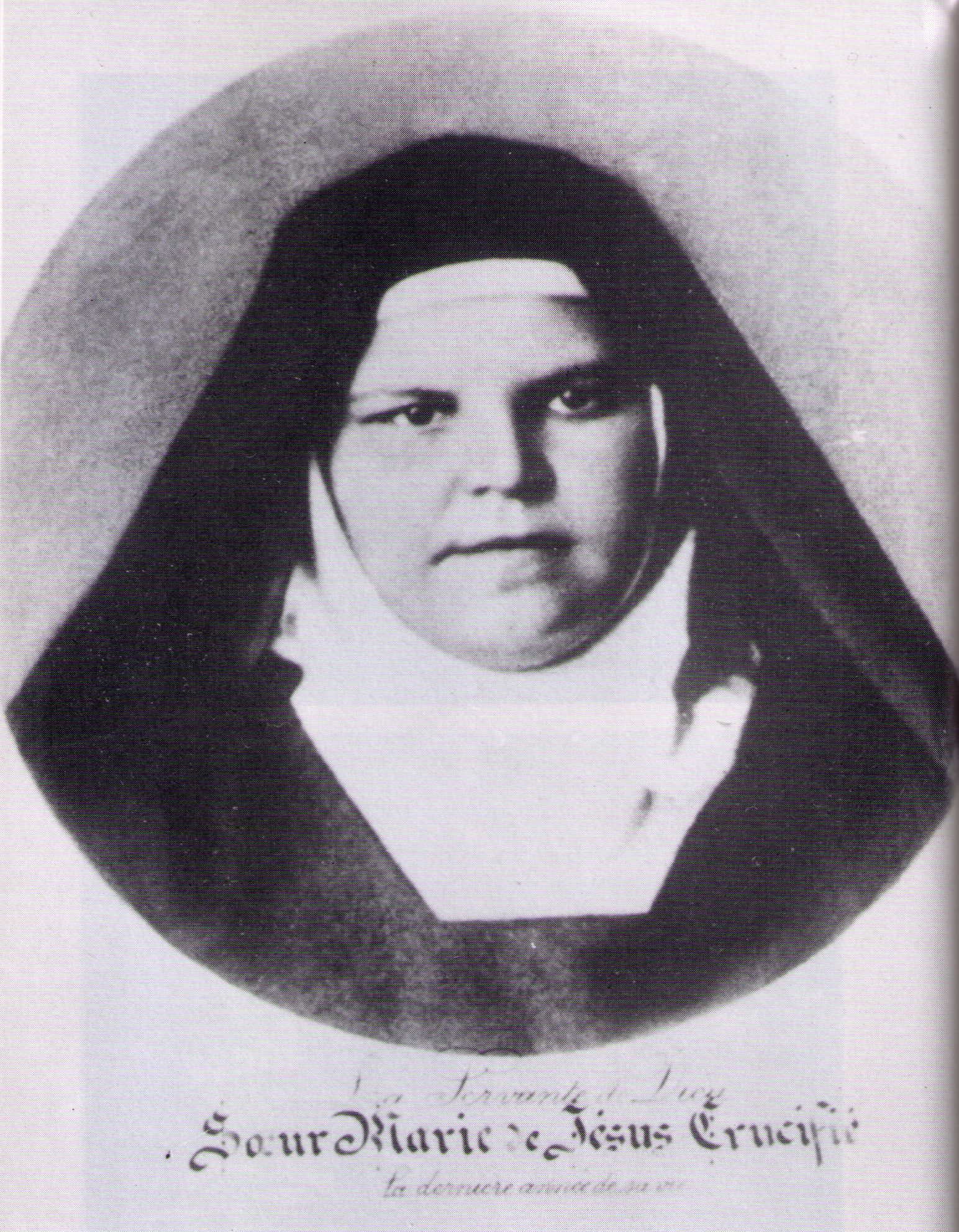 Mariam Baouardy, b. 1846 d. 1878 (Sister Mary of Jesus Crucified, Discalced Carmelite nun). The picture was taken in Summer 1875 before her departure to the Holy Land.